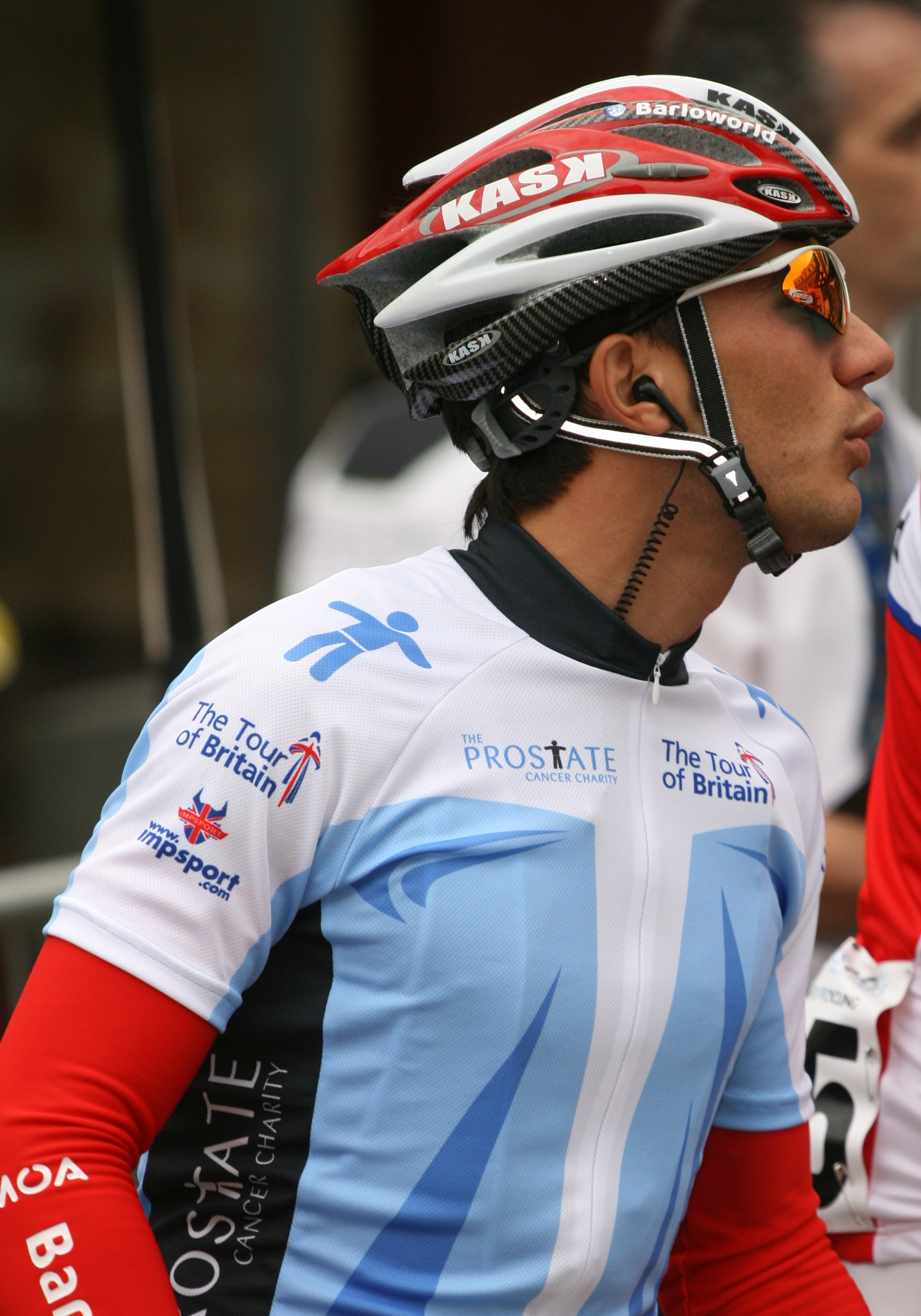 Michele Merlo at the start of Stage 2 of the 2009 Tour of Britain in Darlington.